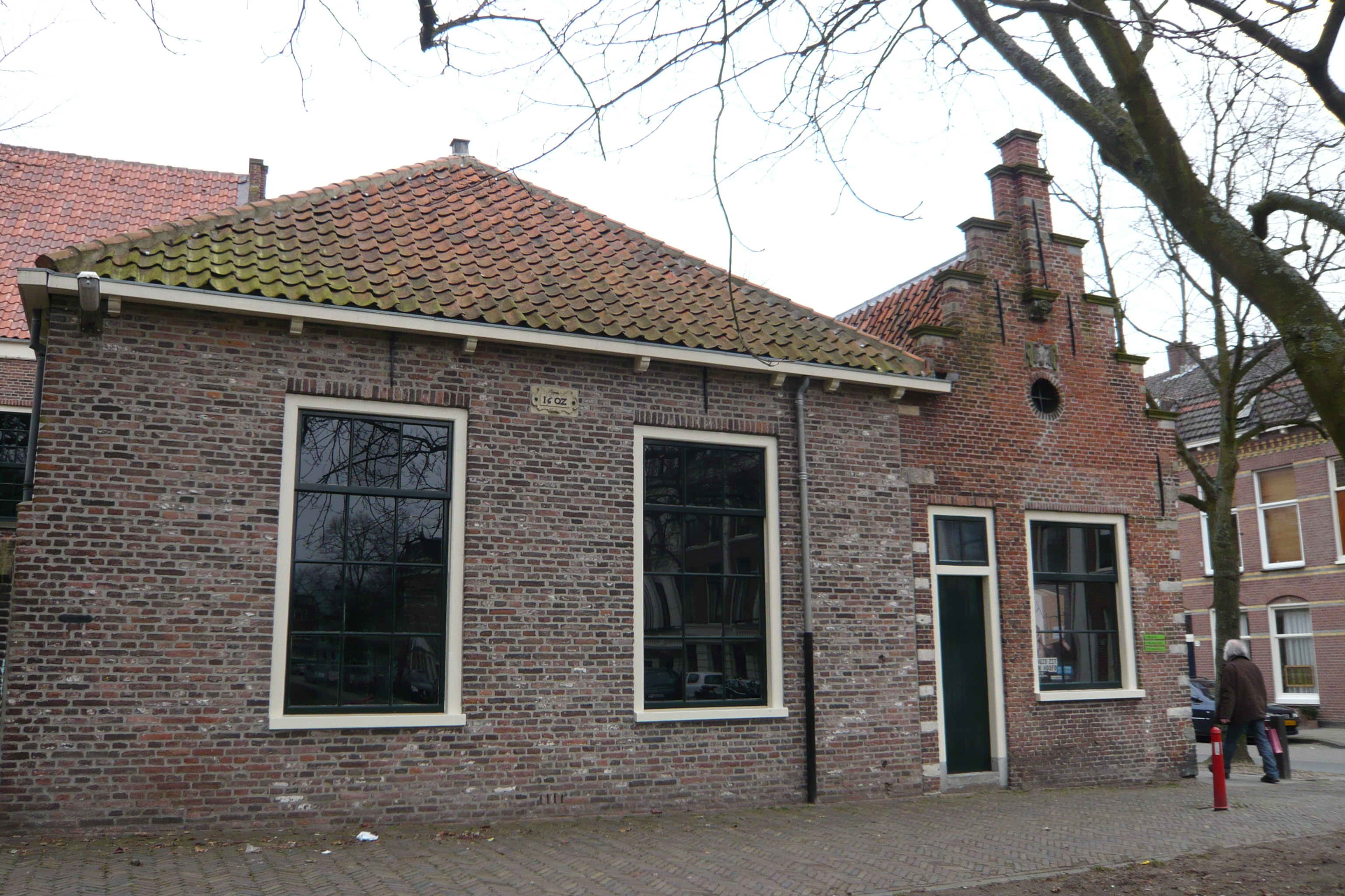 Northeast corner of Dolhuys complex on the Schotersingel in Haarlem. Left hand building shows keystone from 1602, and right hand building shows older keystone (this is the side view of the front of the complex) from 1564. The Haarlem archives first mentions this site as the Leprooshuis or Sint Jacobskapelle in the early 14th century. At that time it was quite far from the city center and considered a safe quarantine for leprosy victims.